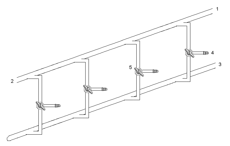 vacuum gas manifold 3 way tap